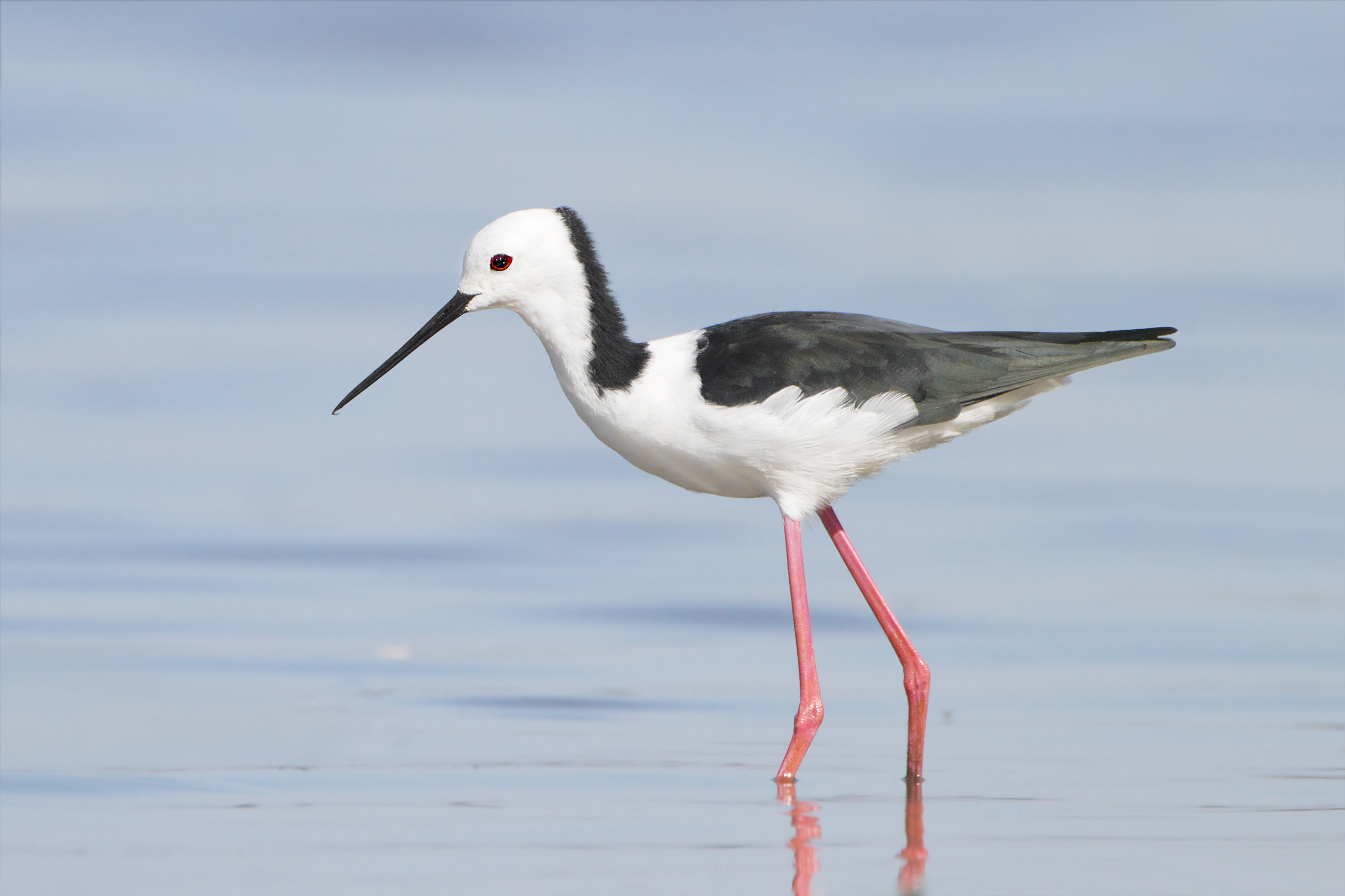 Black-winged Stilt (Himantopus himantopus leucocephalus), Lake Joondalup, Perth, Western Australia, Australia